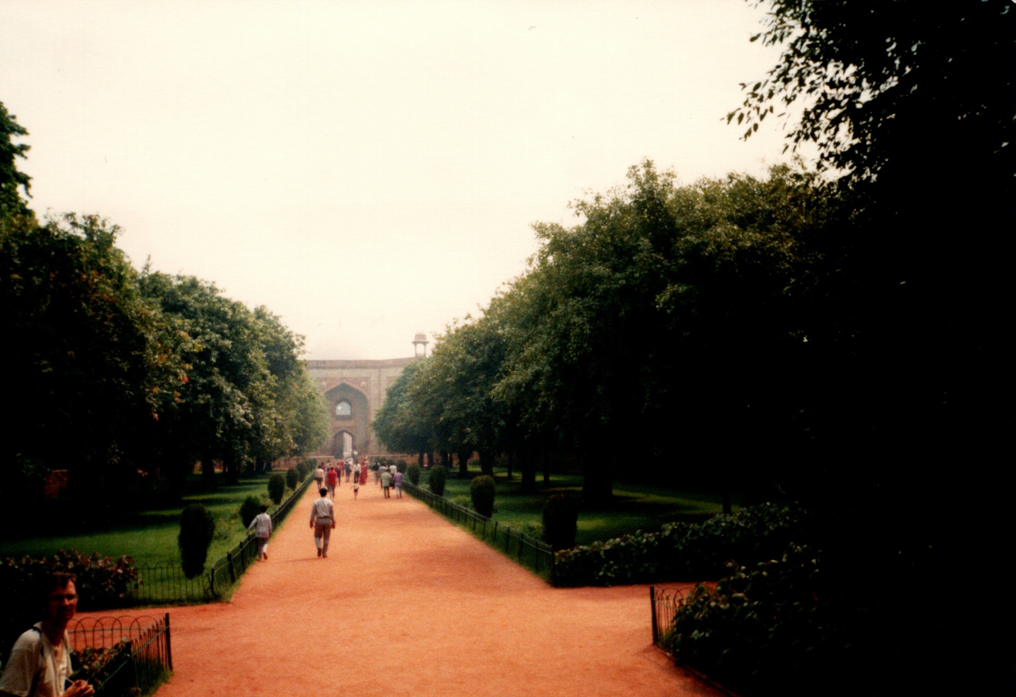 View from the pedestrian walkway of Bu Halima's Garden and Tomb